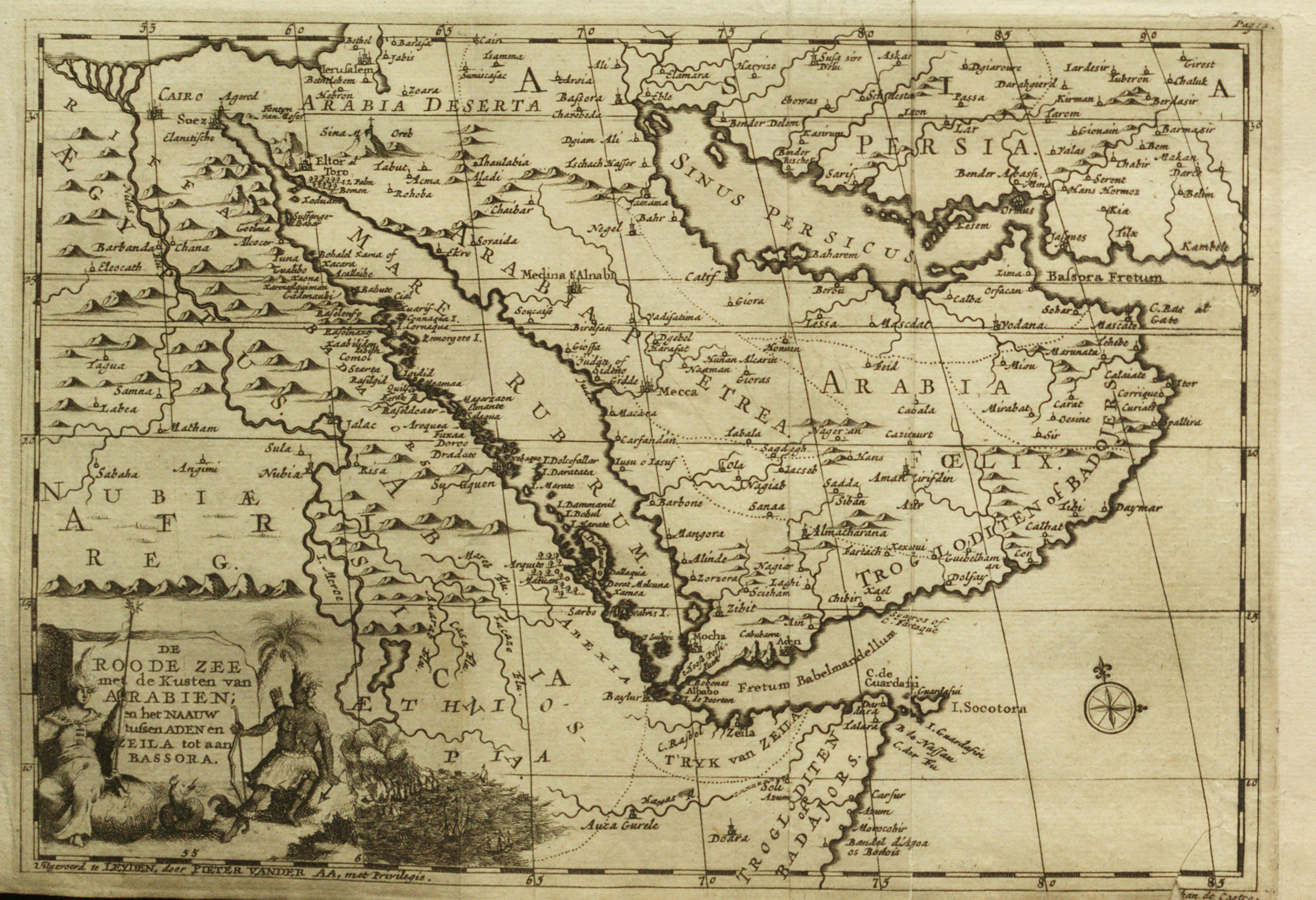 Map of the Arabian Peninsula and Red Sea, by Pieter van der Aa.